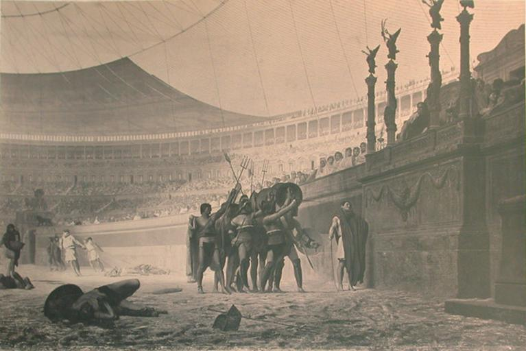 Photograph of Gerome's "Ave Caesar morituri te salutant" (1859) published in the same year by Goupil & Cie